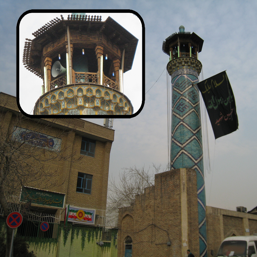 Pamenar is a neighbourhood in Tehran, the capital city of Iran.